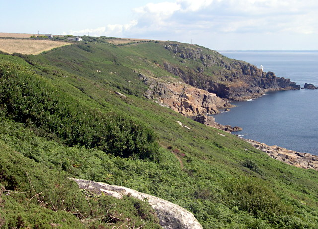 Towards Tater Du The Tater Du lighthouse can just be seen poking over the headland cliffs.